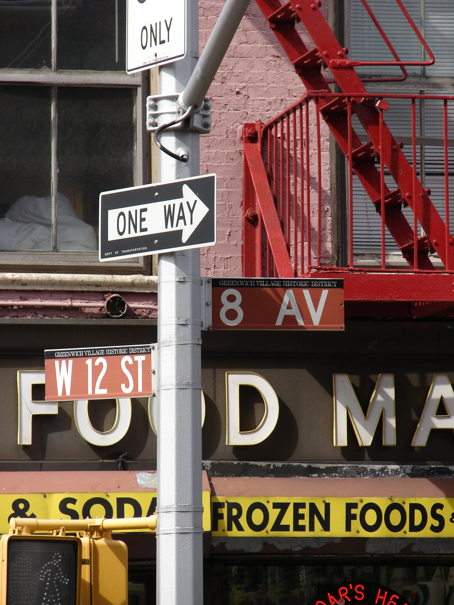 This photo is of Wikis Take Manhattan goal code S26, One-way traffic.